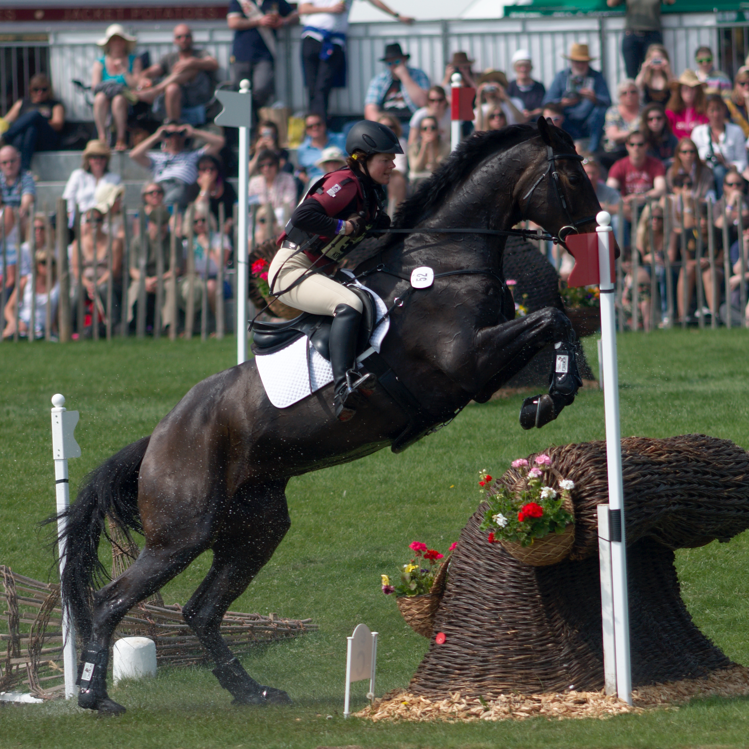 Marina Kohncke and Calma Schelly at the Lake during the cross-country phase of Badminton Horse Trials 2011.